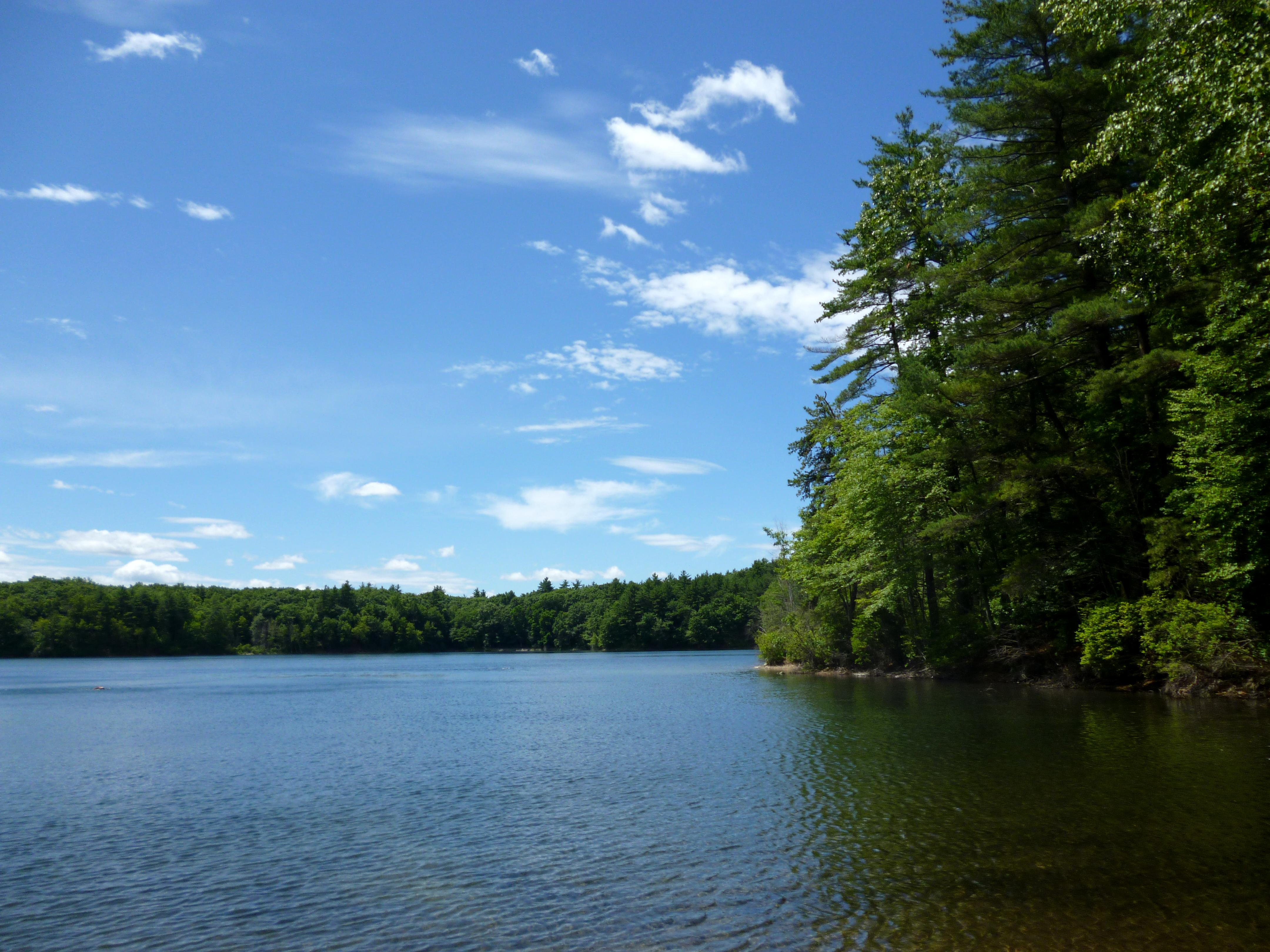 Walden Pond in late June